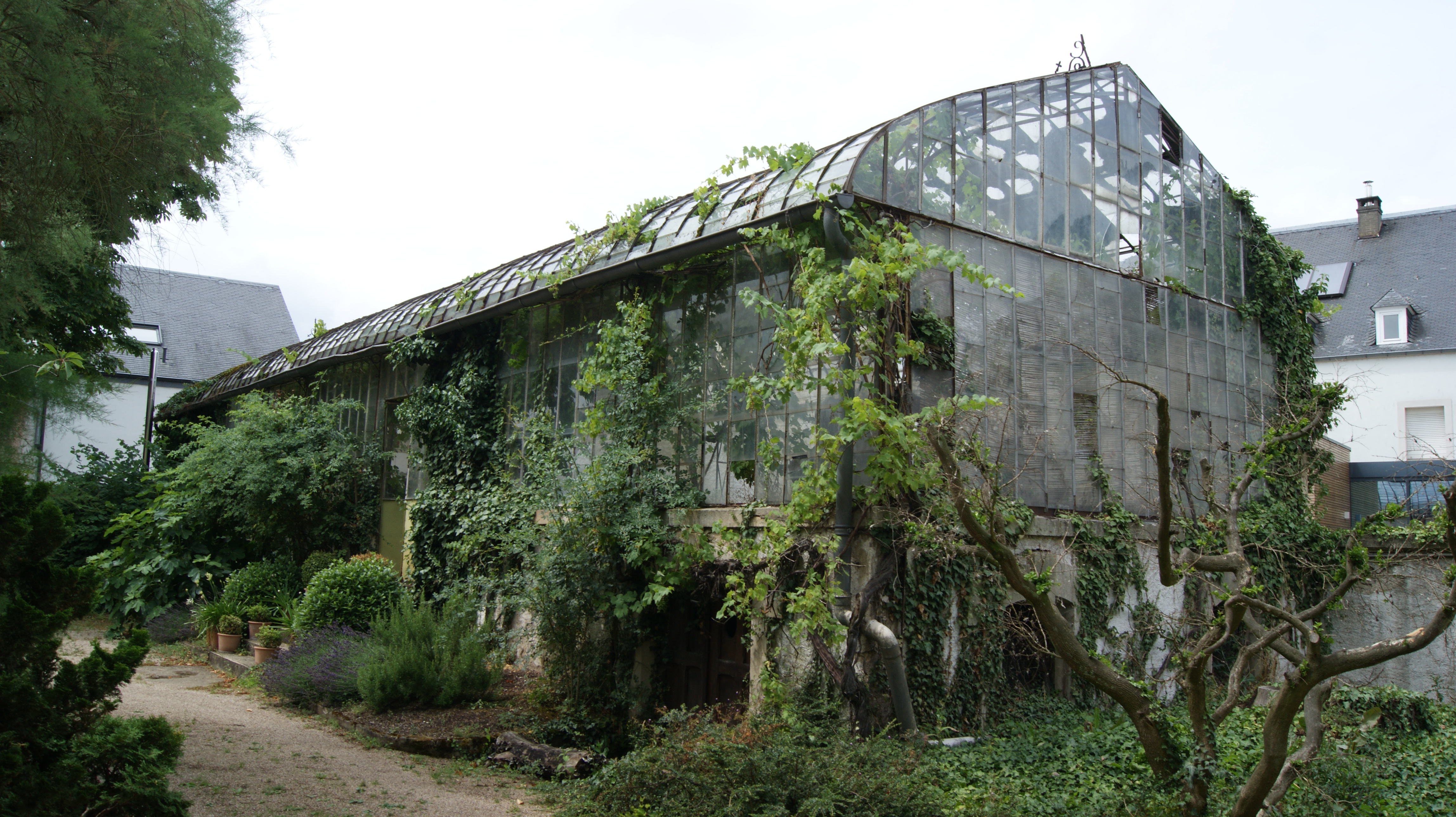 Wintrange Castle in Wintrange in the municipality Schengen, Luxembourg. Built in 1610. Orangery